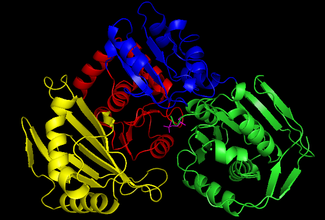 This .png file, which originated from 1JDY.PDB, illustrates the four domains of phosphoglucomutase.